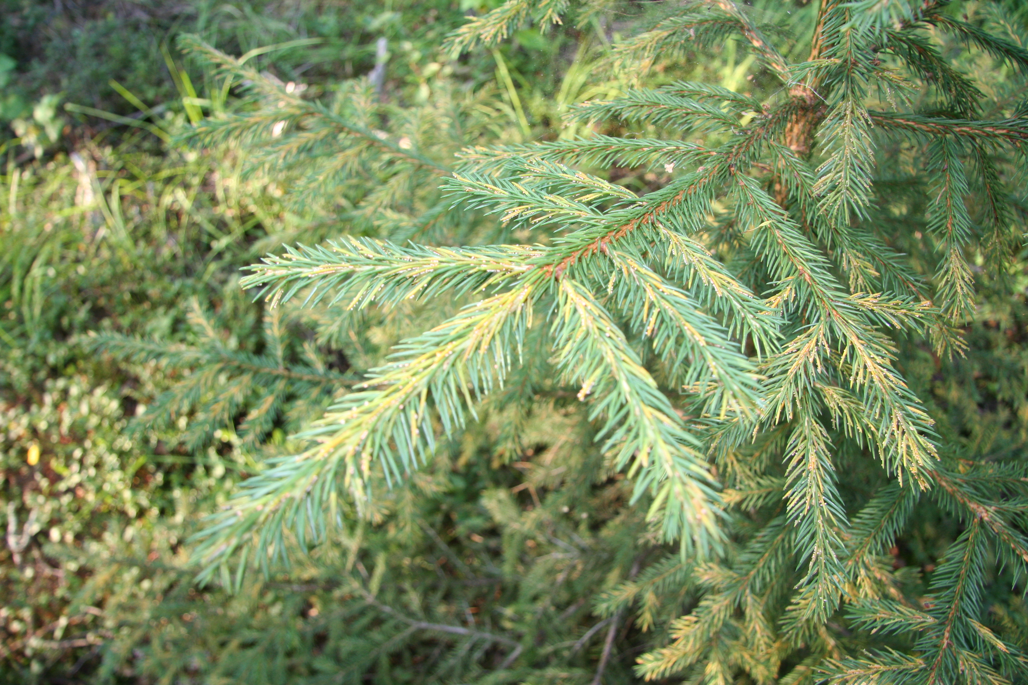 Chrysomyxa ledi var. ledi on Picea abies (the white spots contain spores)